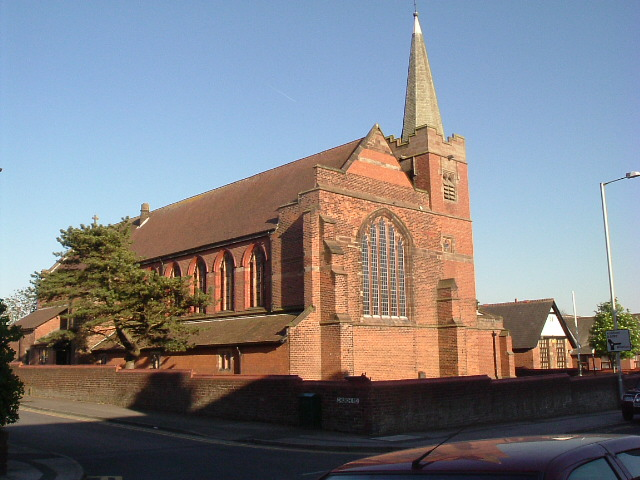 Christ Church parish church, Garstang Road North, Wesham, Lancashire, seen from the west